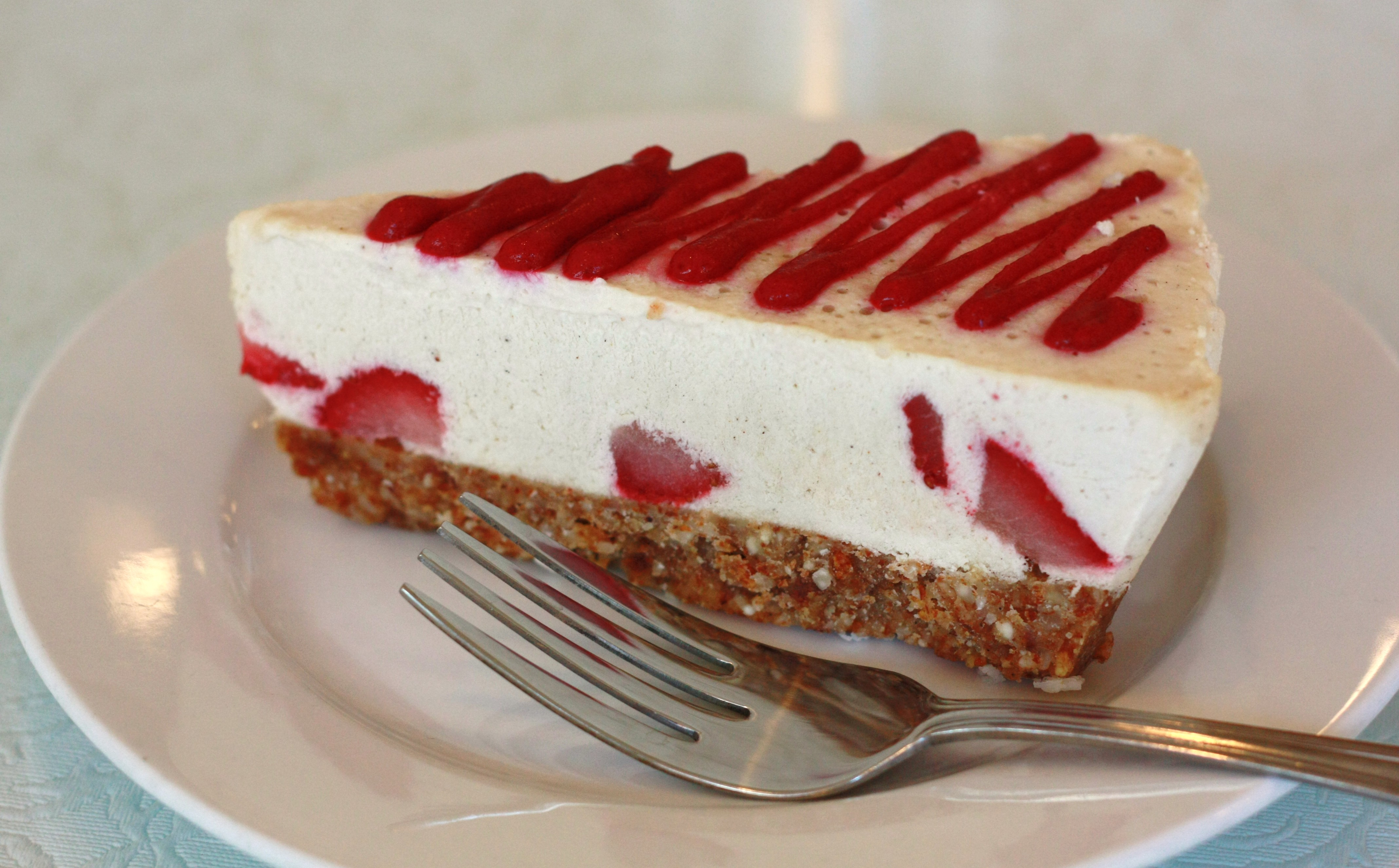 Raw Strawberry Shortcake at Loving Hut Vegan Restaurant